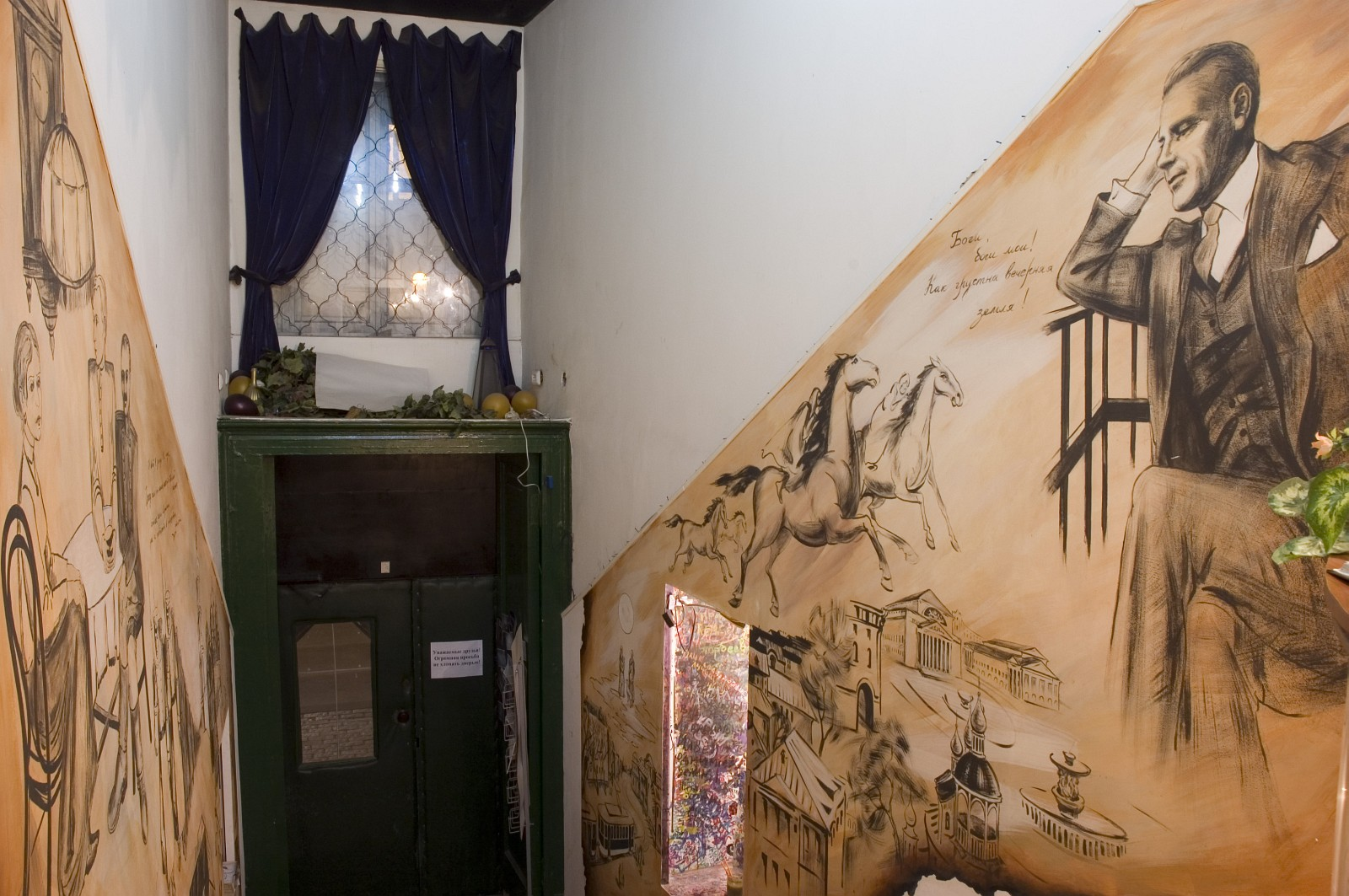 Bulgakov House in Moscow